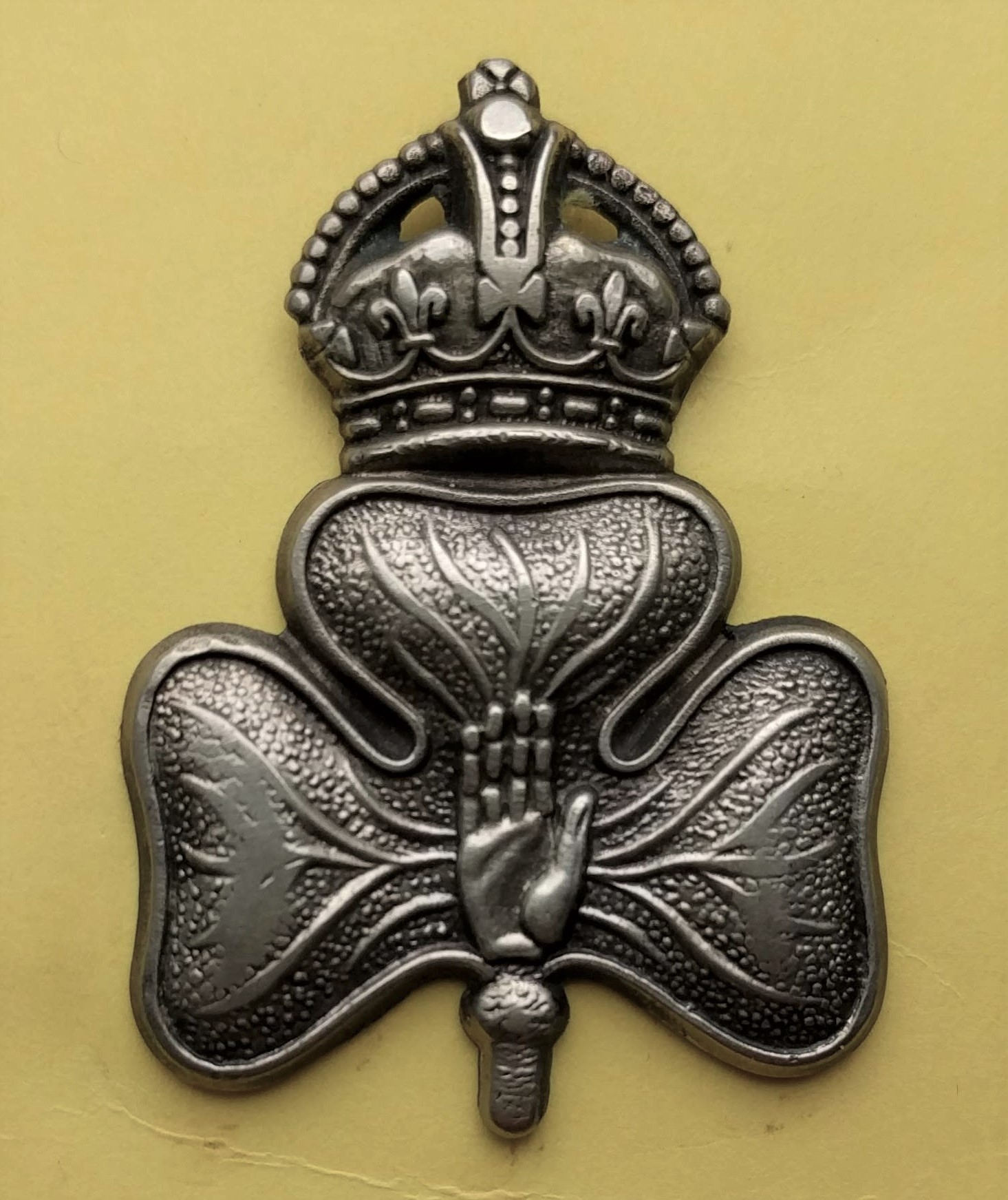 14th (Service) Battalion (Young Citizens) Royal Irish Rifles other ranks cap badge, white metal. 1914-1919.